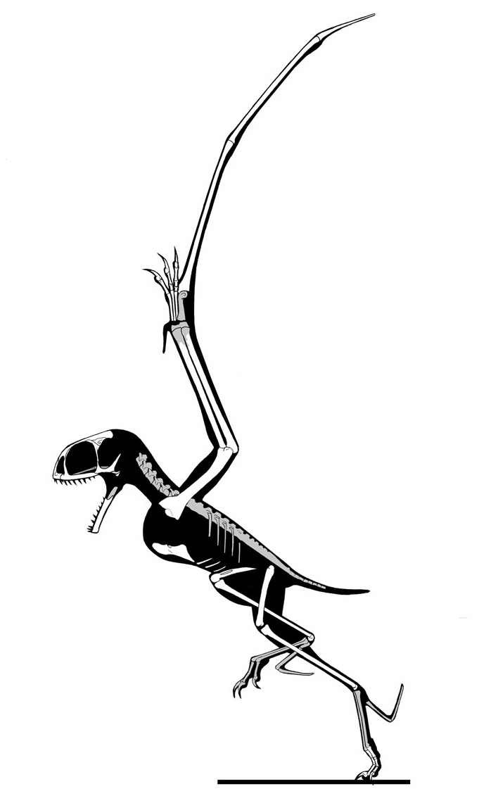 Skeletal reconstruction of the Anurognathus ammoni holotype.